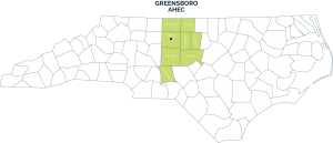 Map of the North Carolina AHEC regions.